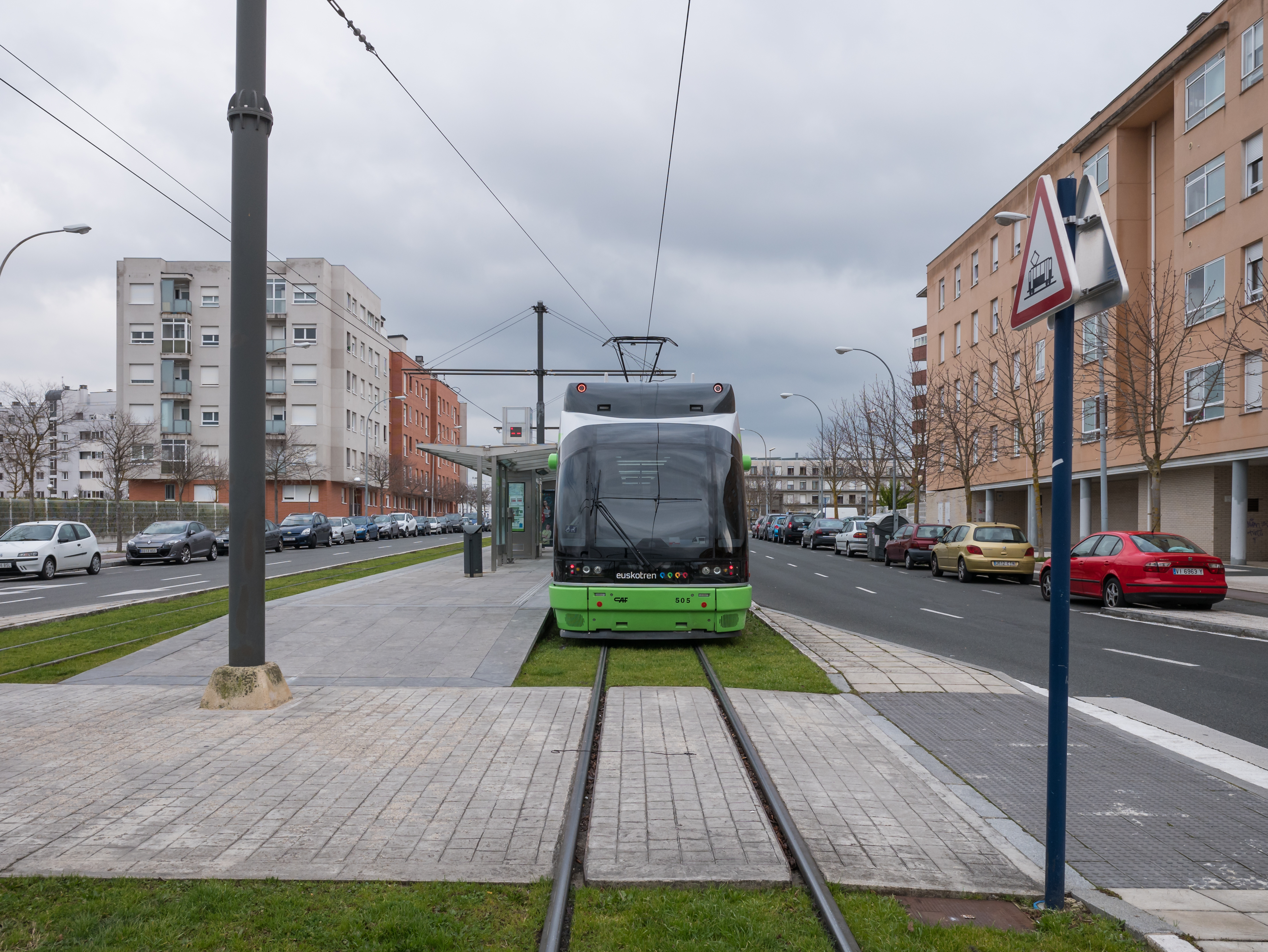 Last tram stop at Ibaiondo. Vitoria-Gasteiz, Basque Country, Spain